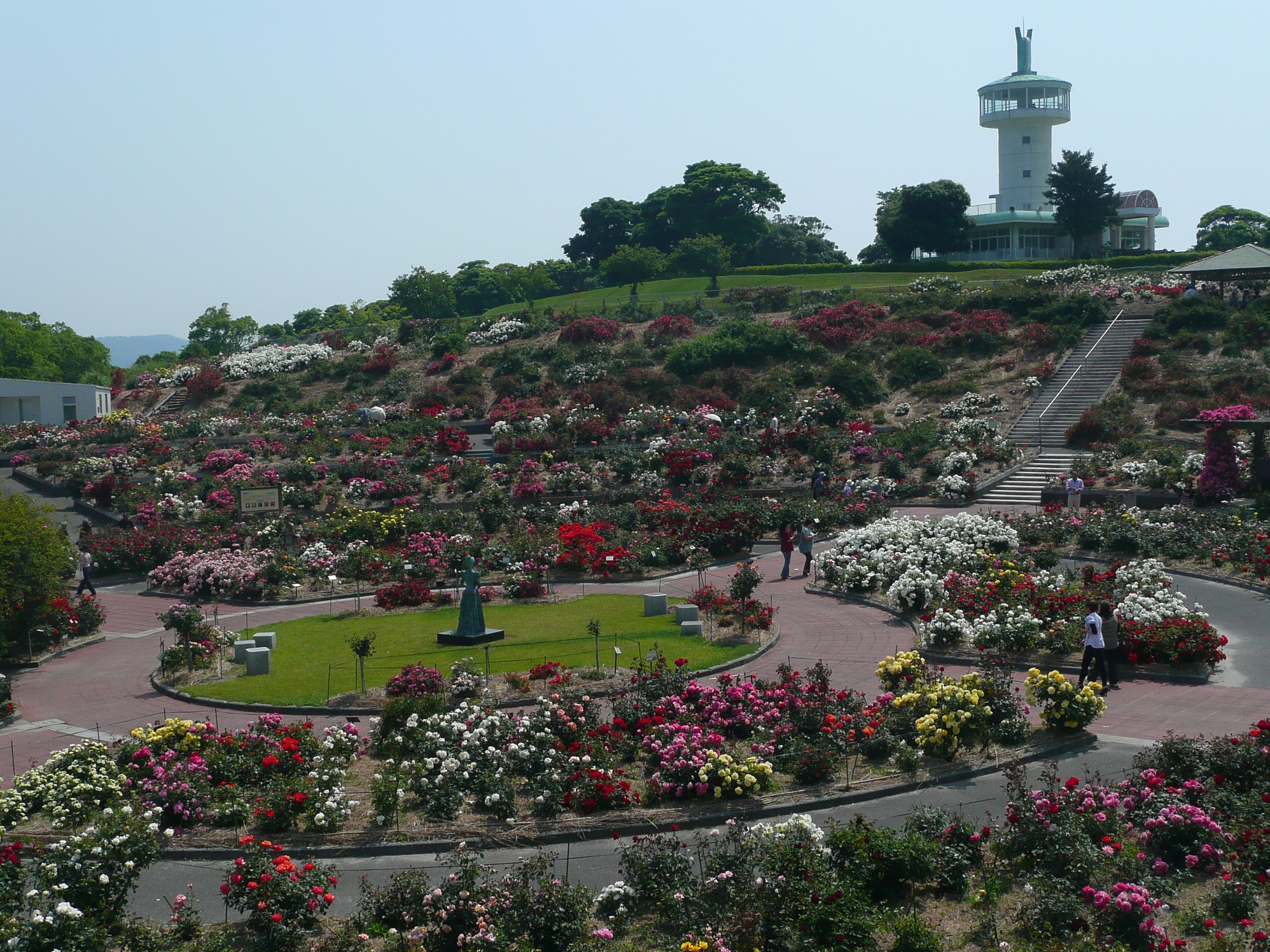 Kanoya Rose Garden (Kanoya City, Kagoshima, Japan)